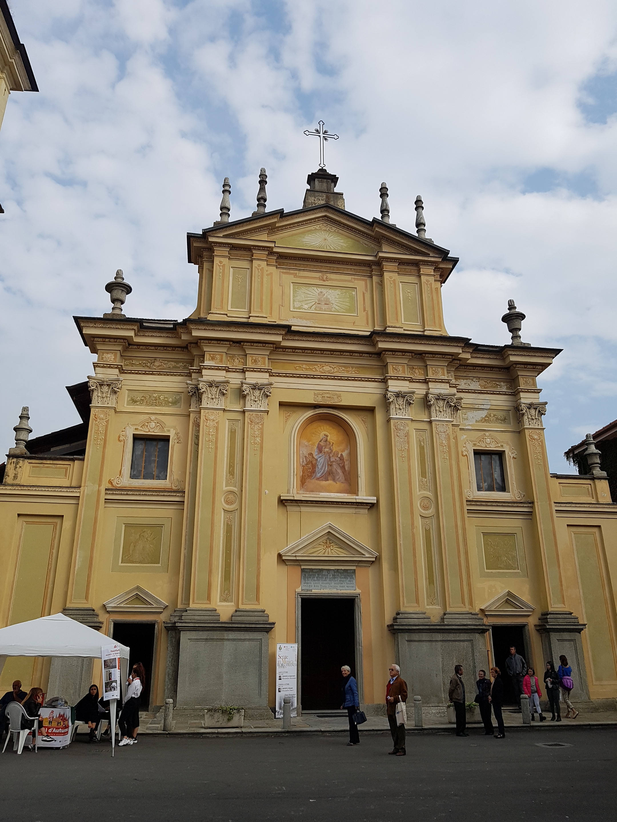 St Maurice parish church, XVI-XVIII century, Borgofranco d'Ivrea, Northern Italy